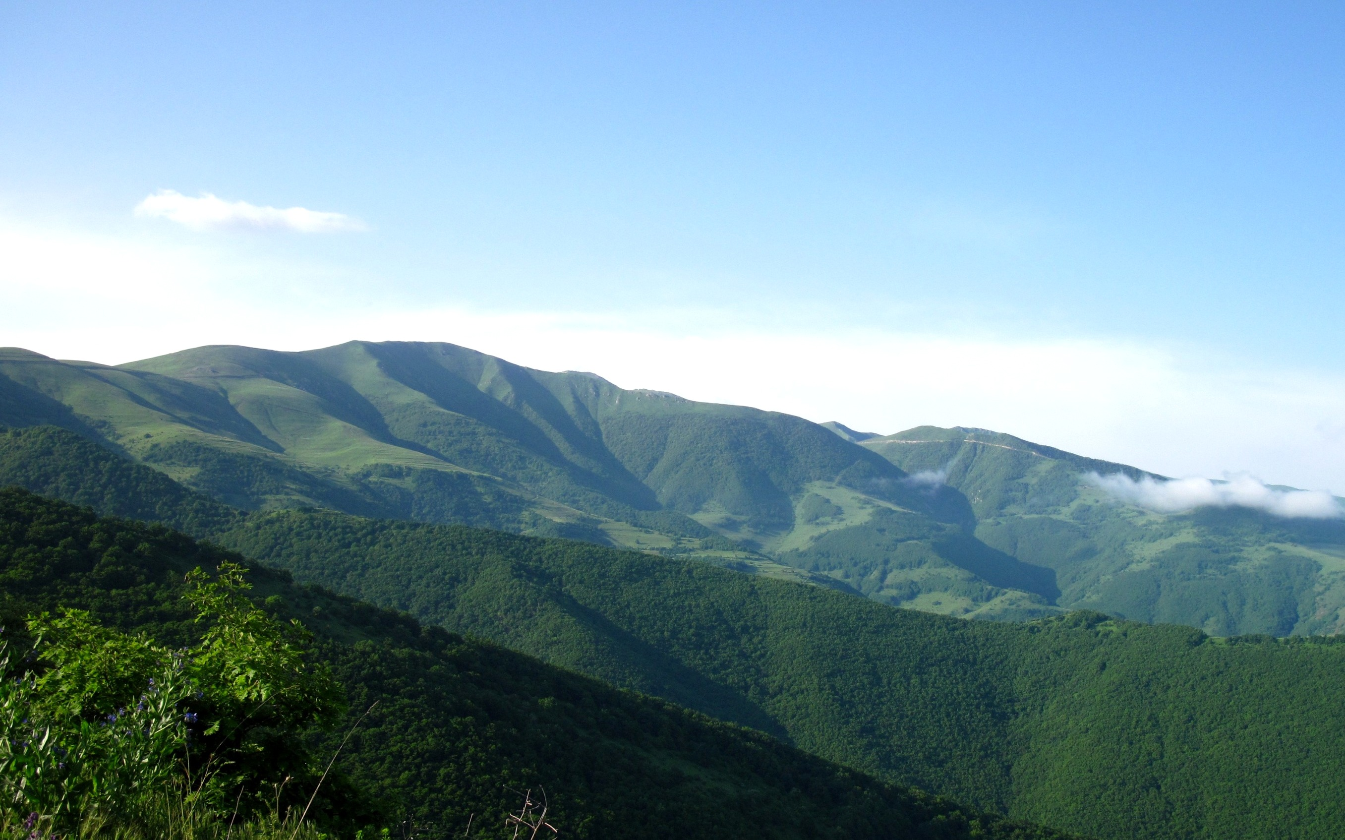 For Aqdash wiki page.